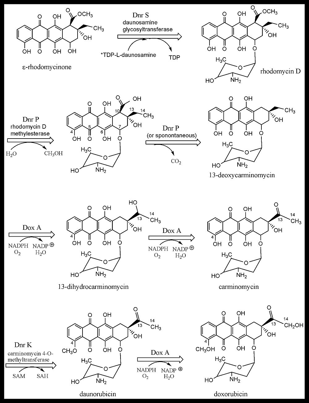 Biosynthesis of doxorubicin from-rhodomycinone